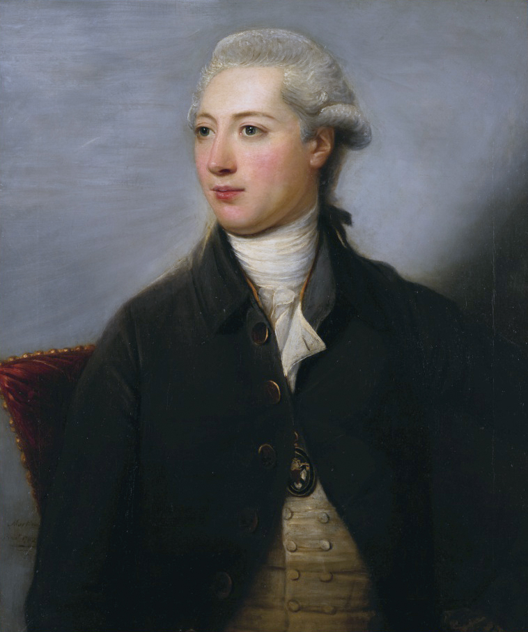 John Belsches Wishart, later Stuart, 3rd Bt. (1752-1821) oil on canvas 76.2 x 63.9 cm signed l.l.: Martin/ Pinxt. 1782